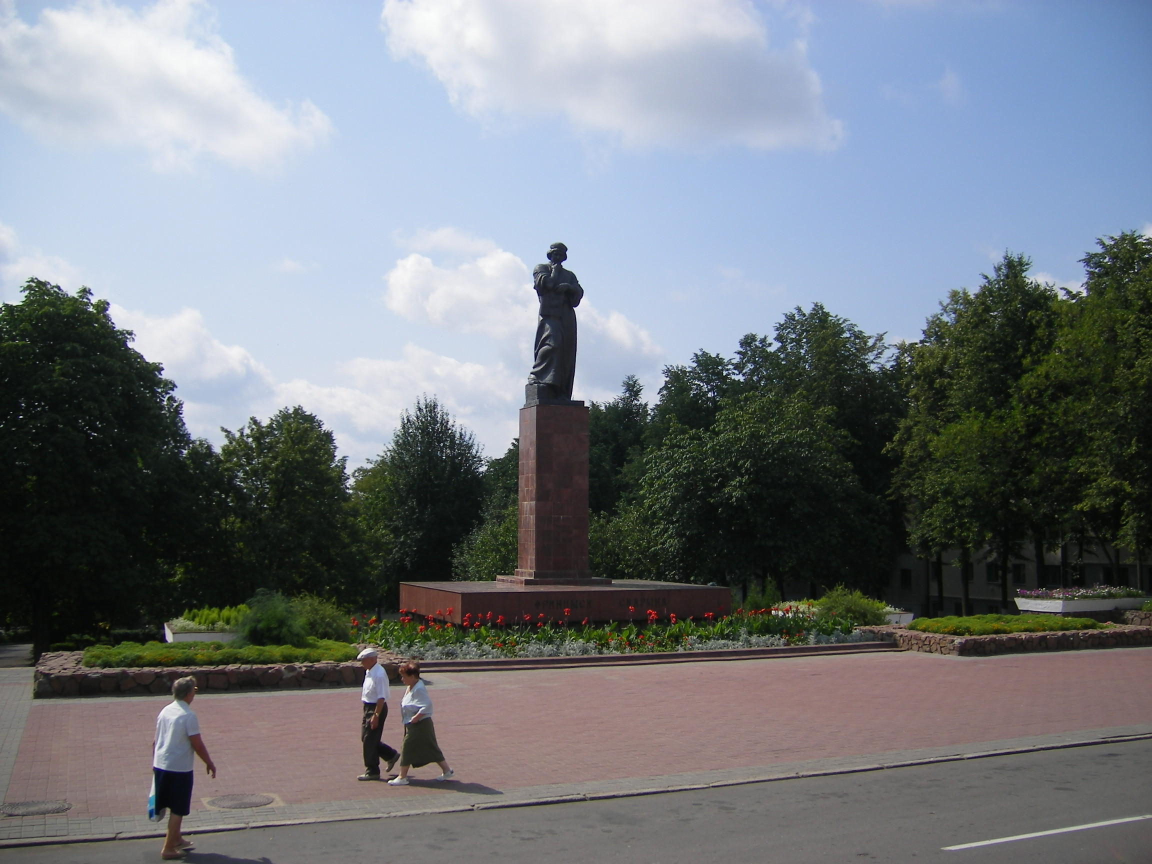 Statue of Francisk Skaryna